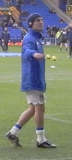 Leon Osman.